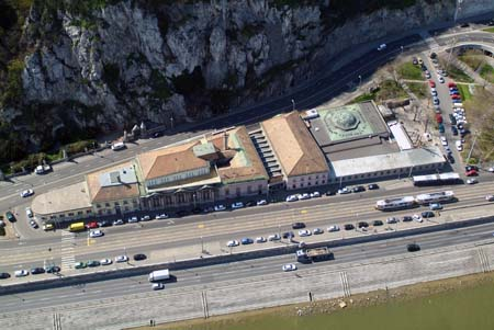 Rudas Baths, Budapest, Hungary, aerial photography